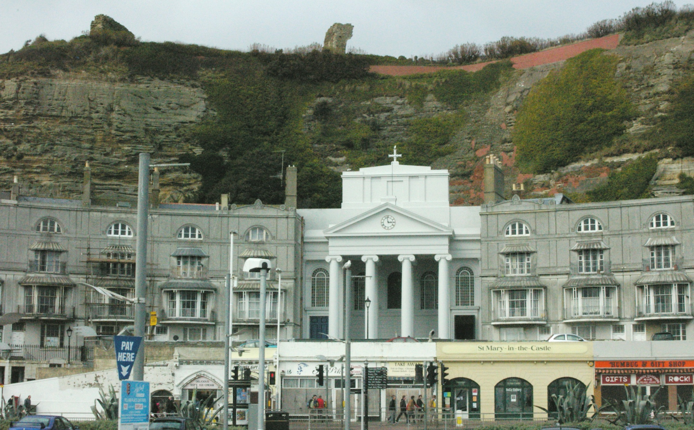 Pelham Crescent and the former St Mary in the Castle Church (now an Arts Centre) with the castle ruins just visible at the top of the cliff – Hastings, England.